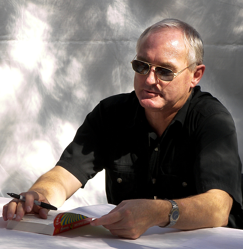 Christopher Buckley at the 2008 Texas Book Festival, Austin, Texas, United States.